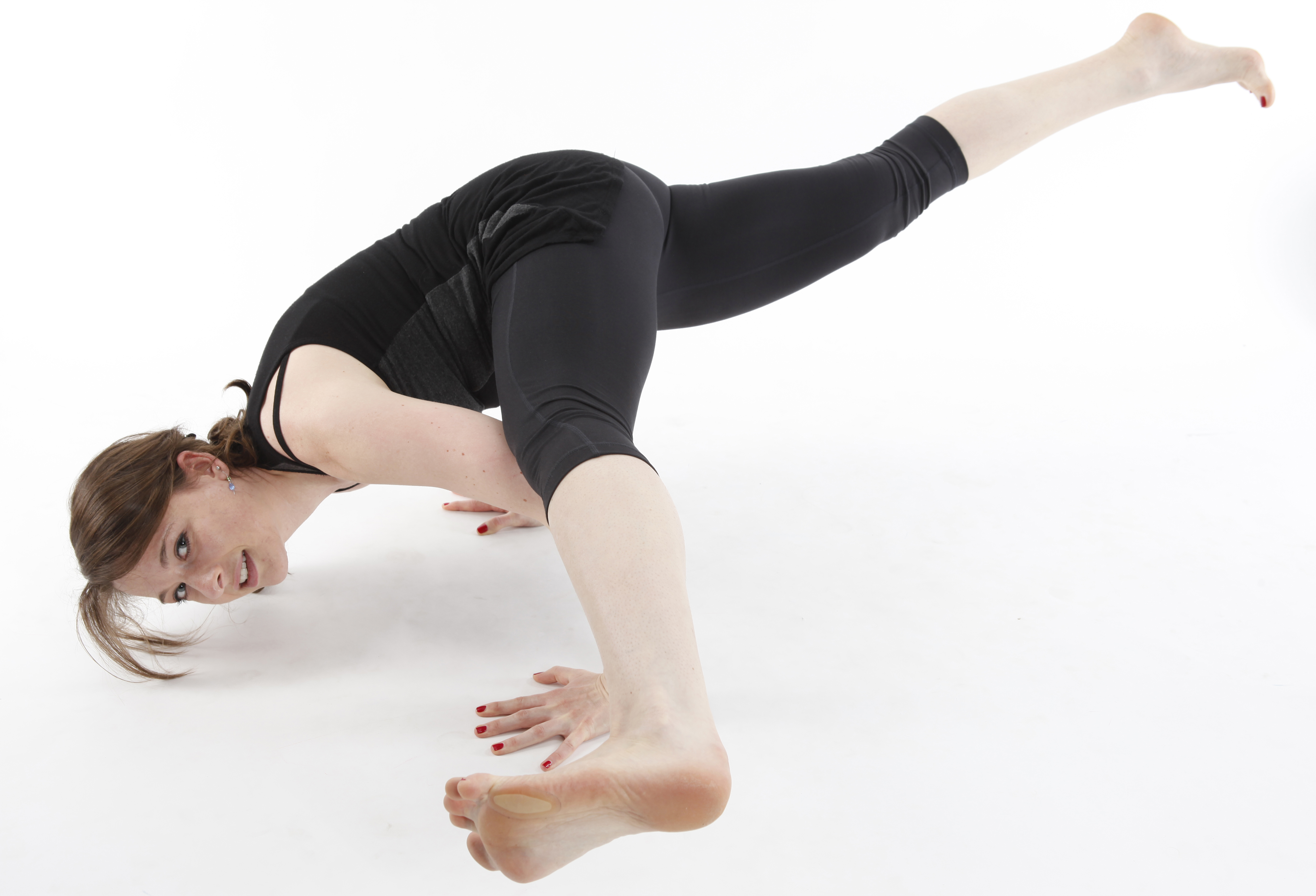 Eka Pada Koundinyasana II One legged Pose dedicated to the sage Koundinya